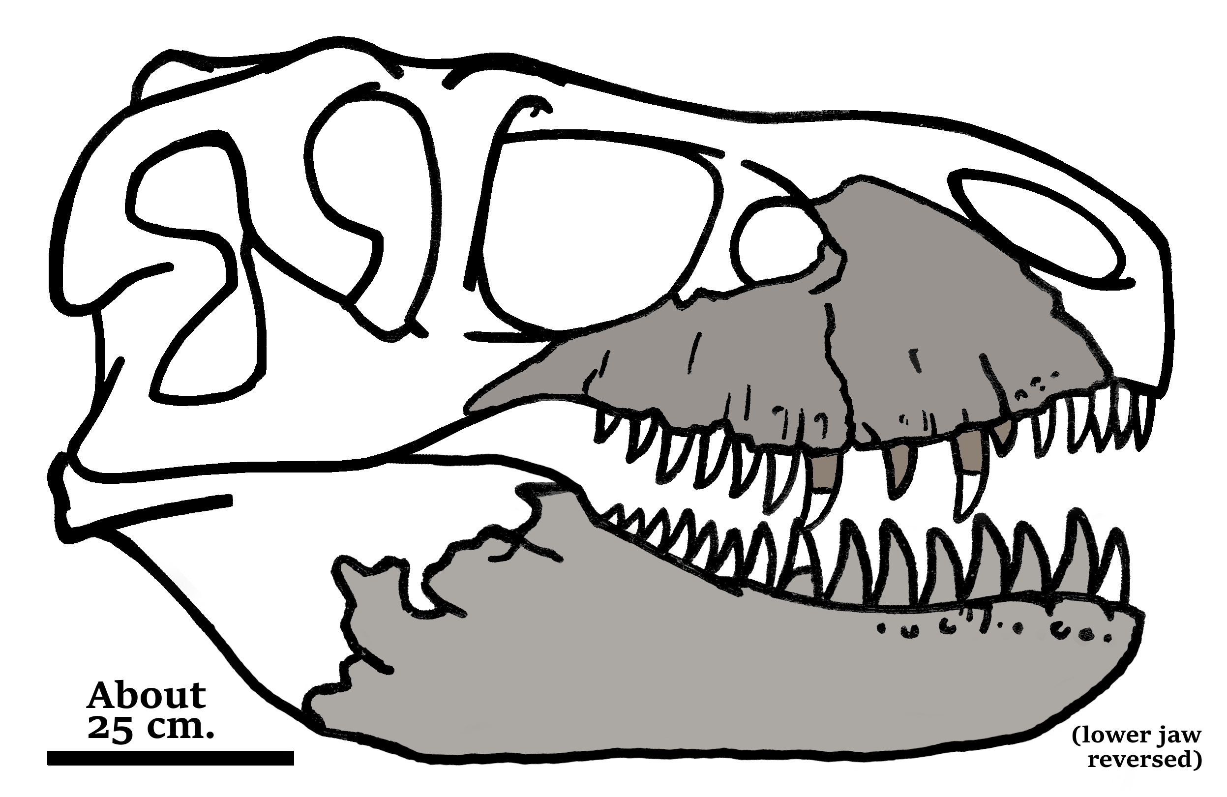 Illustration of the remains after the theropod dinosaur Zhuchengtyrannus magnus (Theropoda, Neotheropoda, Tetanurae, Coelurosauria, Tyrannosauroidea, Tyrannosauridae).[1] Zhuchengtyrannus was an Asian relative of Tyrannosaurus rex, and probably measured over 10 meters long. See also "Zhuchengtyrannus-is-here!", , 31-3-2011. References ↑ Sullivan C et.al, "A new tyrannosaurine theropod, Zhuchengtyrannus magnus is named based on a maxillary and dentary", Cretaceous Research (2011). Mandible. [1], [2], Maxilla.